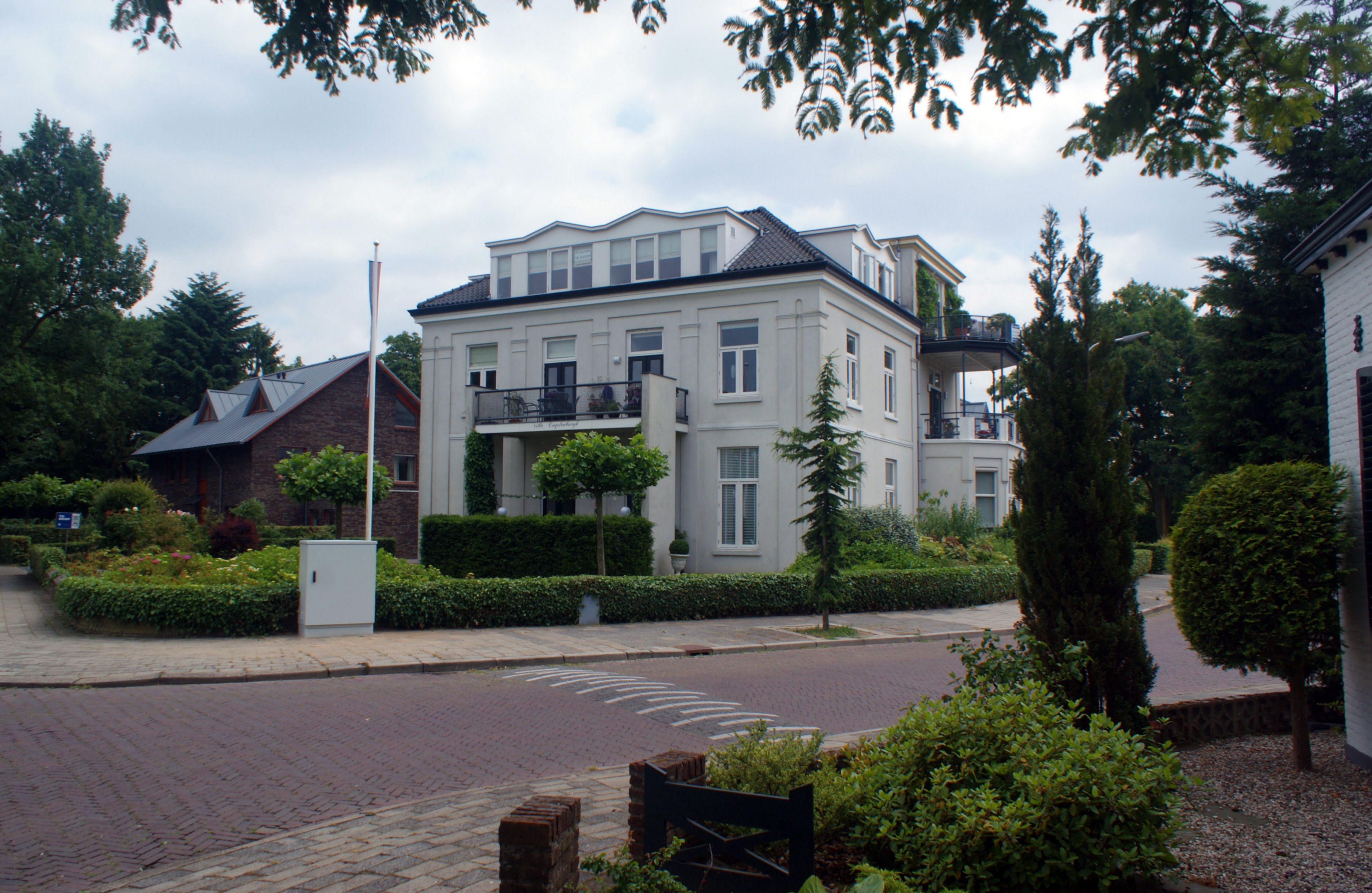 Villa Jachtlust (The White Villa) Hees (near Nijmegen) Schependomlaan 51 Jan van Engelenburg